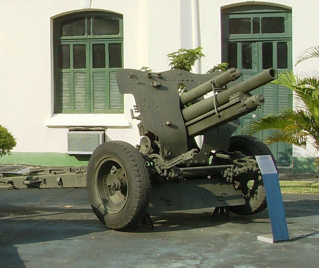 A 75 mm field gun produced by Krupp in 1937